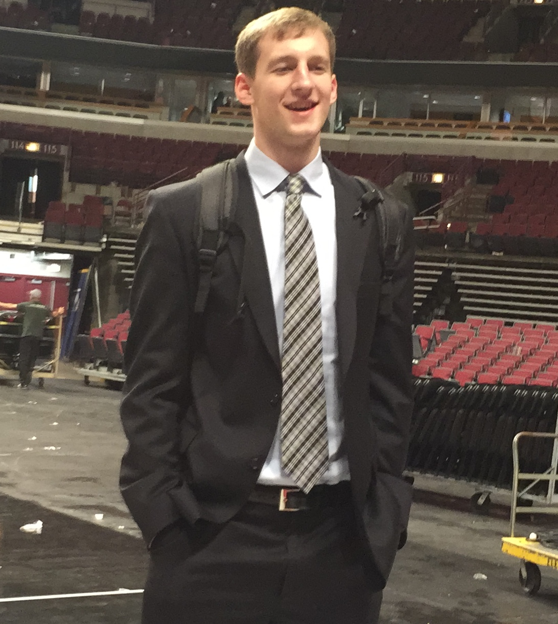 Cody Zeller, IU Hoosiers standout and now member of Charlotte Bobcats/Hornets of NBA in Chicago, spring 2015